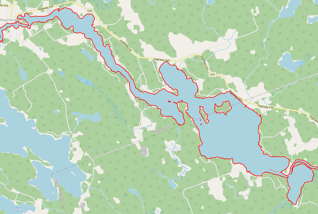 Lake Cecebe map with highlighted red edges